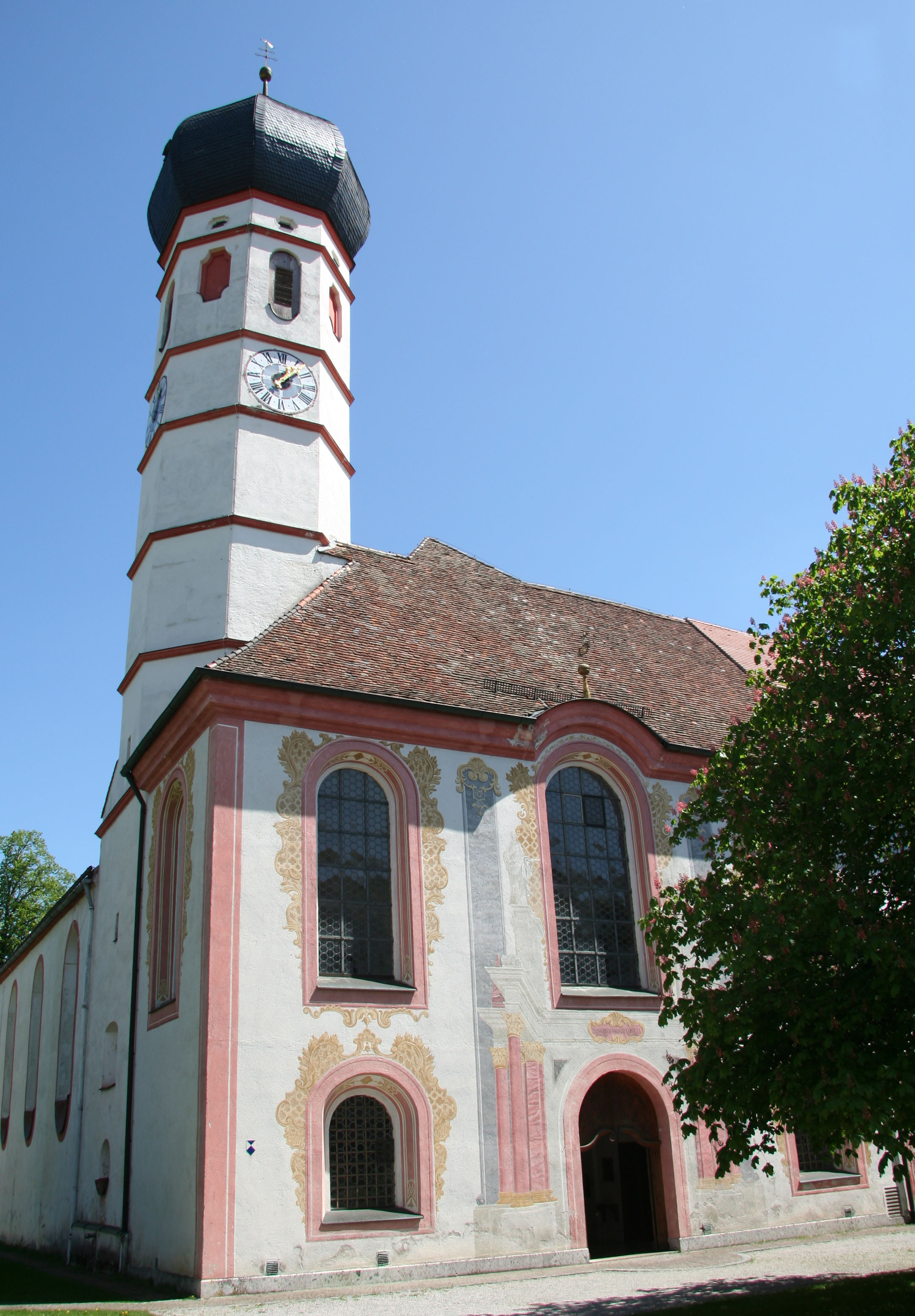 St. Peter and Paul in Beuerberg, Upper Bavaria